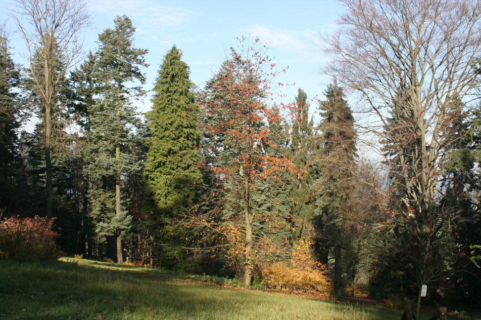 Kamenz (town in Saxony): Hutberg, conifers